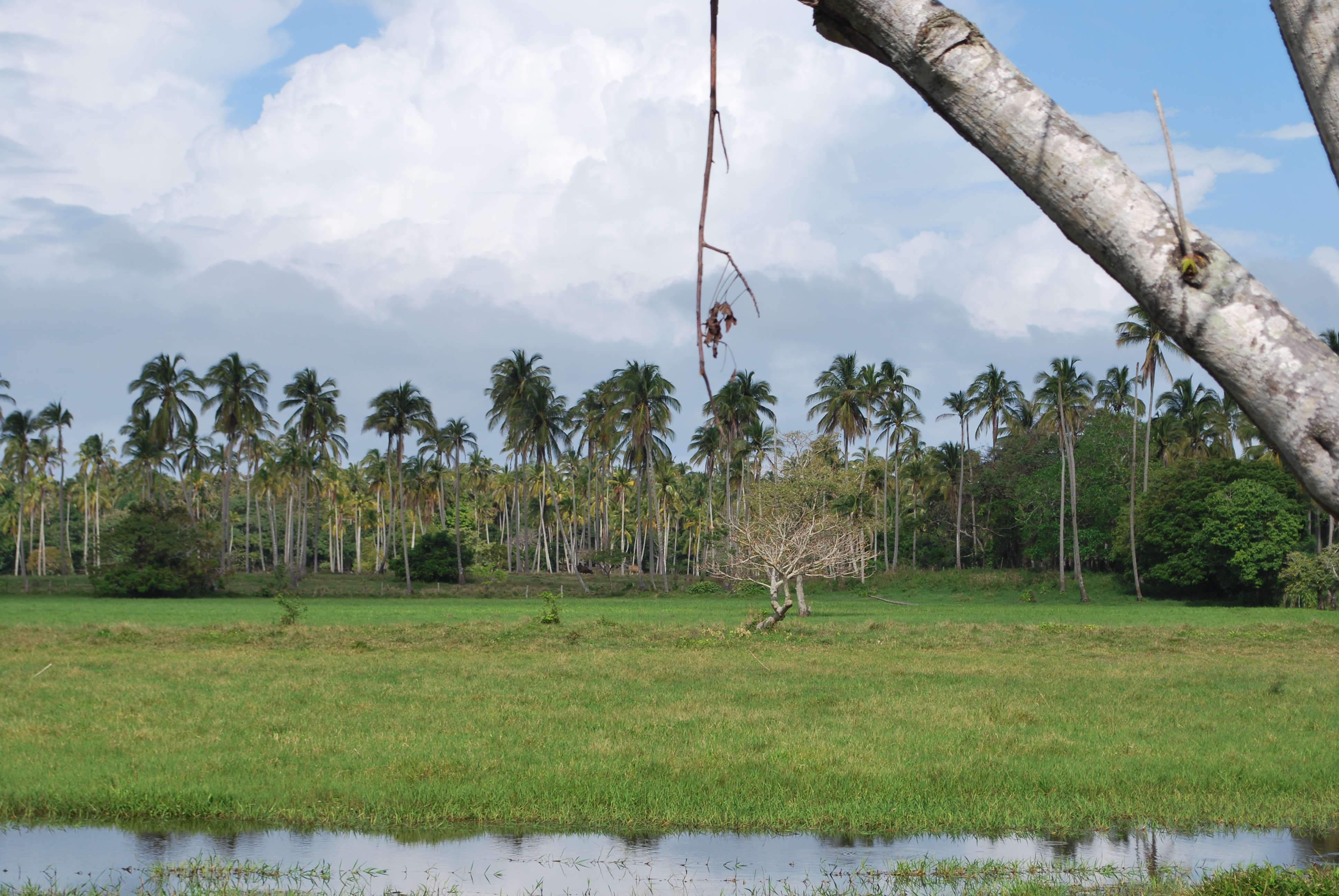 Wetlands just outside of Sanchez Magallanes, Tabasco, Mexico